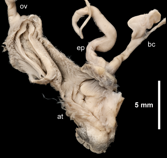 Photo of reproductive system of Arion vulgaris. Locality: UK, England, South Devon, Exhibition Road, East Town, Crediton (according to the table S1.) ov - oviduct; ep - epiphallus; bc - bursa copulatrix; at - atrium.